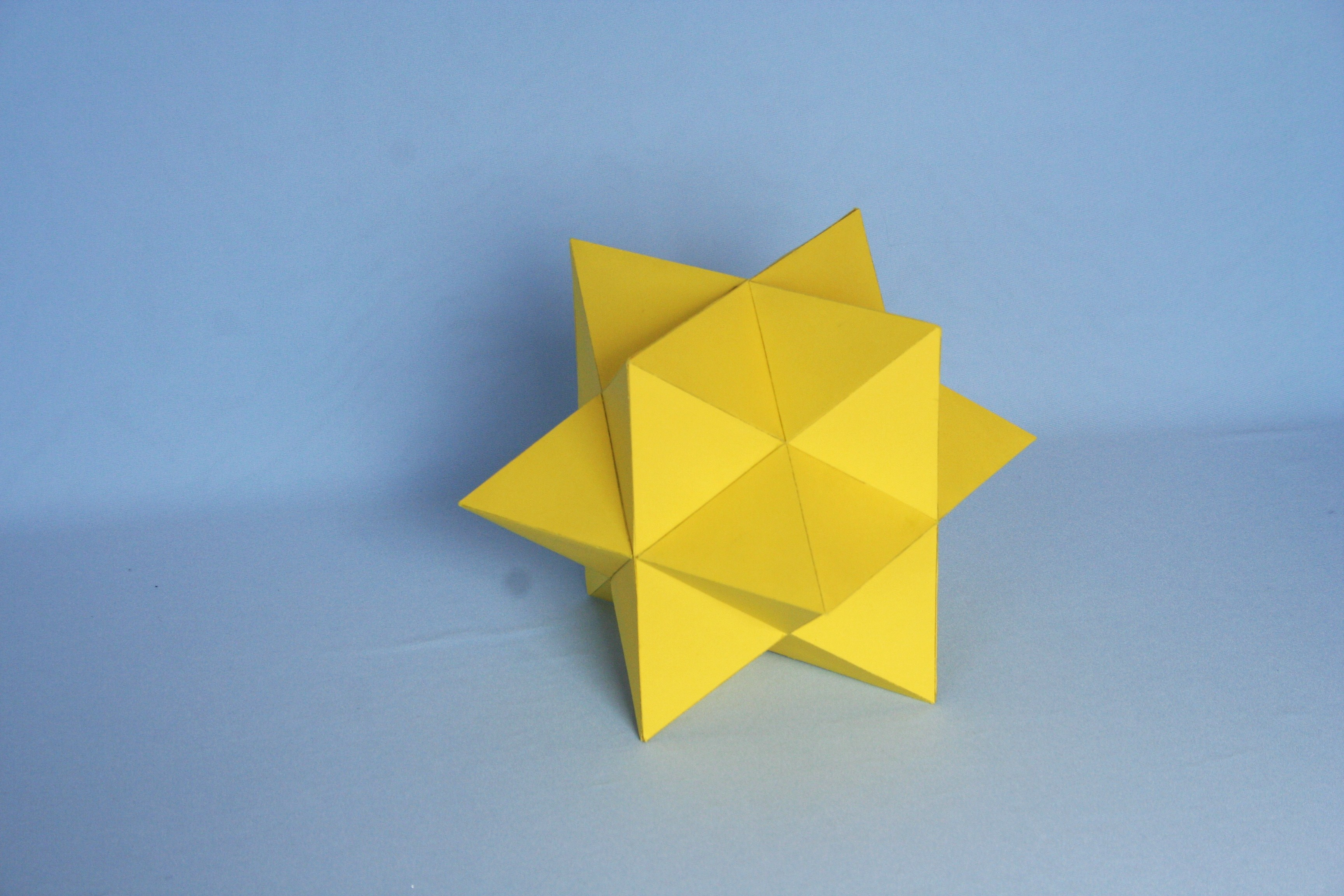 Model in the Mathematical Model Collection Marburg.see also [1] for more information on the models